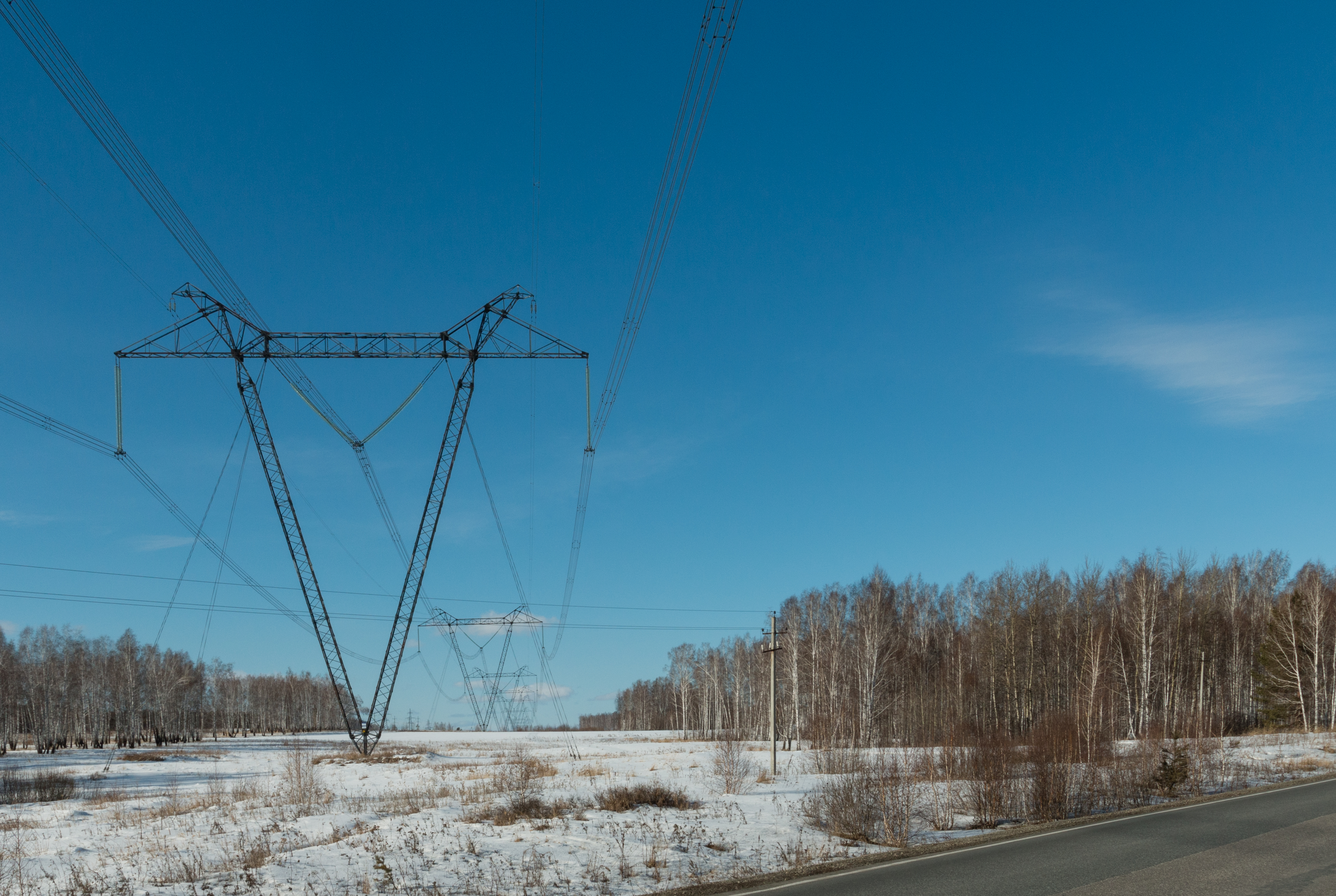 Power line 1150 kV in Chelyabinsk oblast